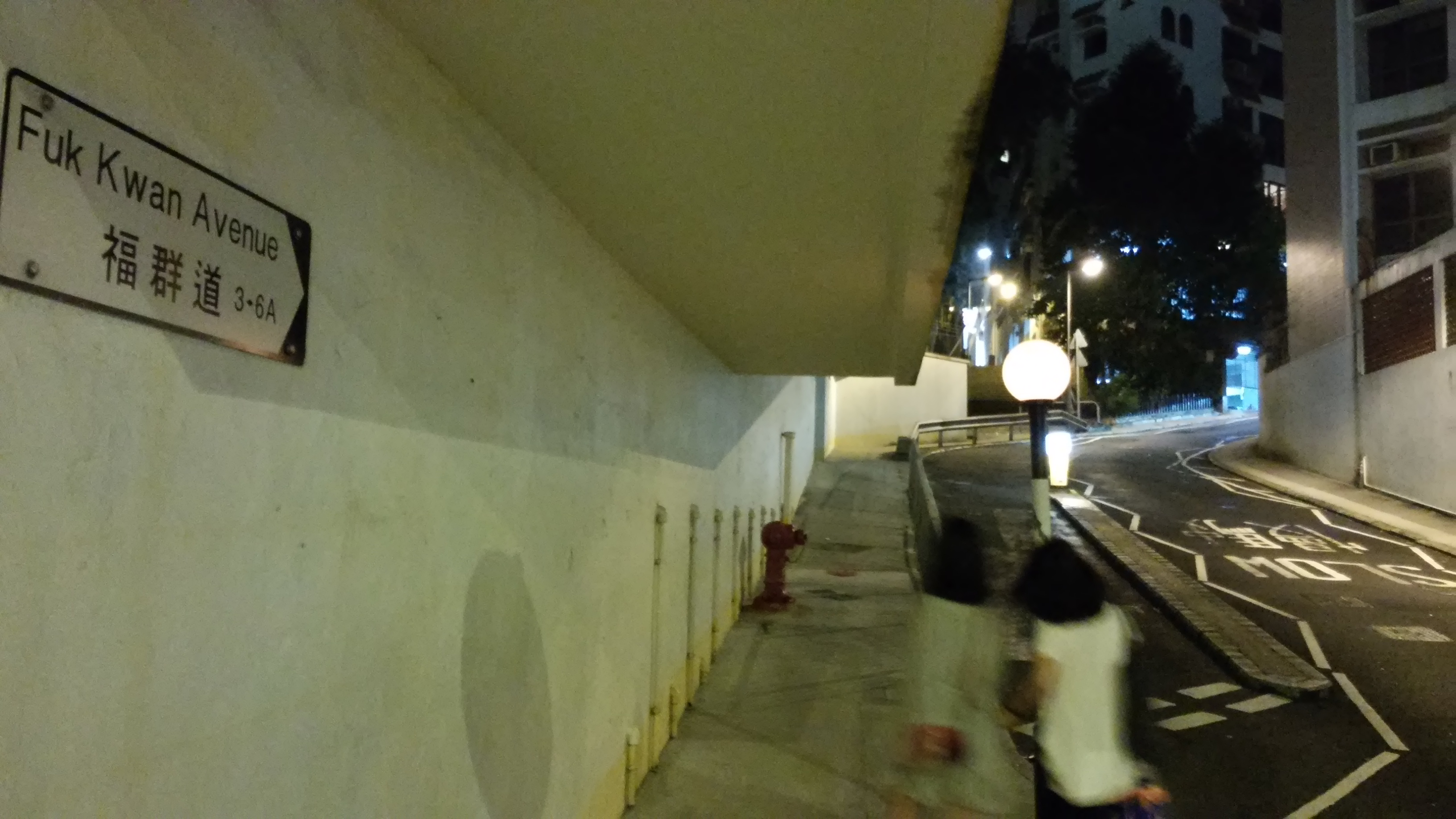 Signs in Fuk Kwan Avenue, Tai Hang Road, Hong Kong